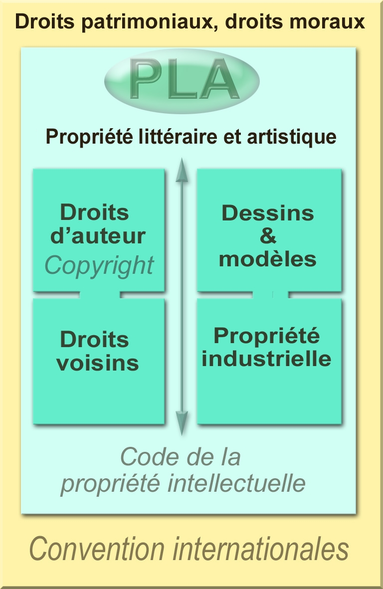 Rimplified representation of the context of "intellectual property" in France at the end of the twentieth century.